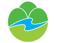 Kawanehon Shizuoka chapter